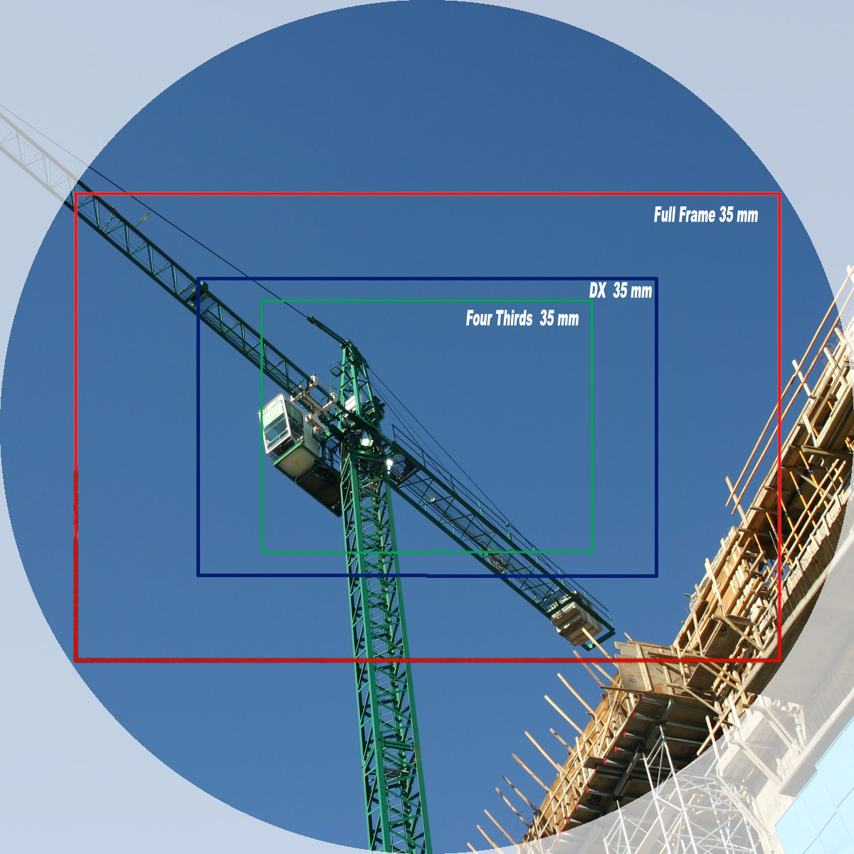 to compare crop factor between FullFrame, DX system and four thirds System